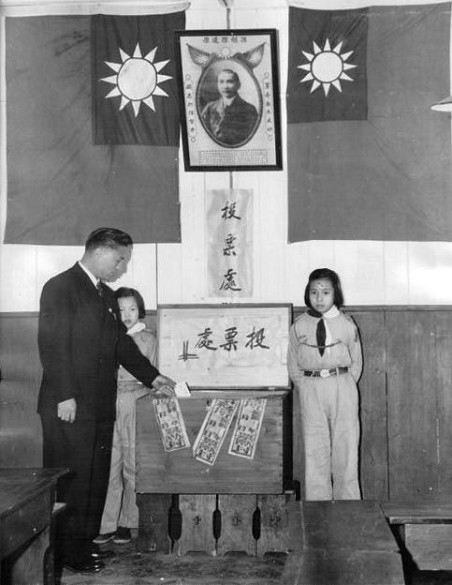 The legislative election by the people of China in 1948